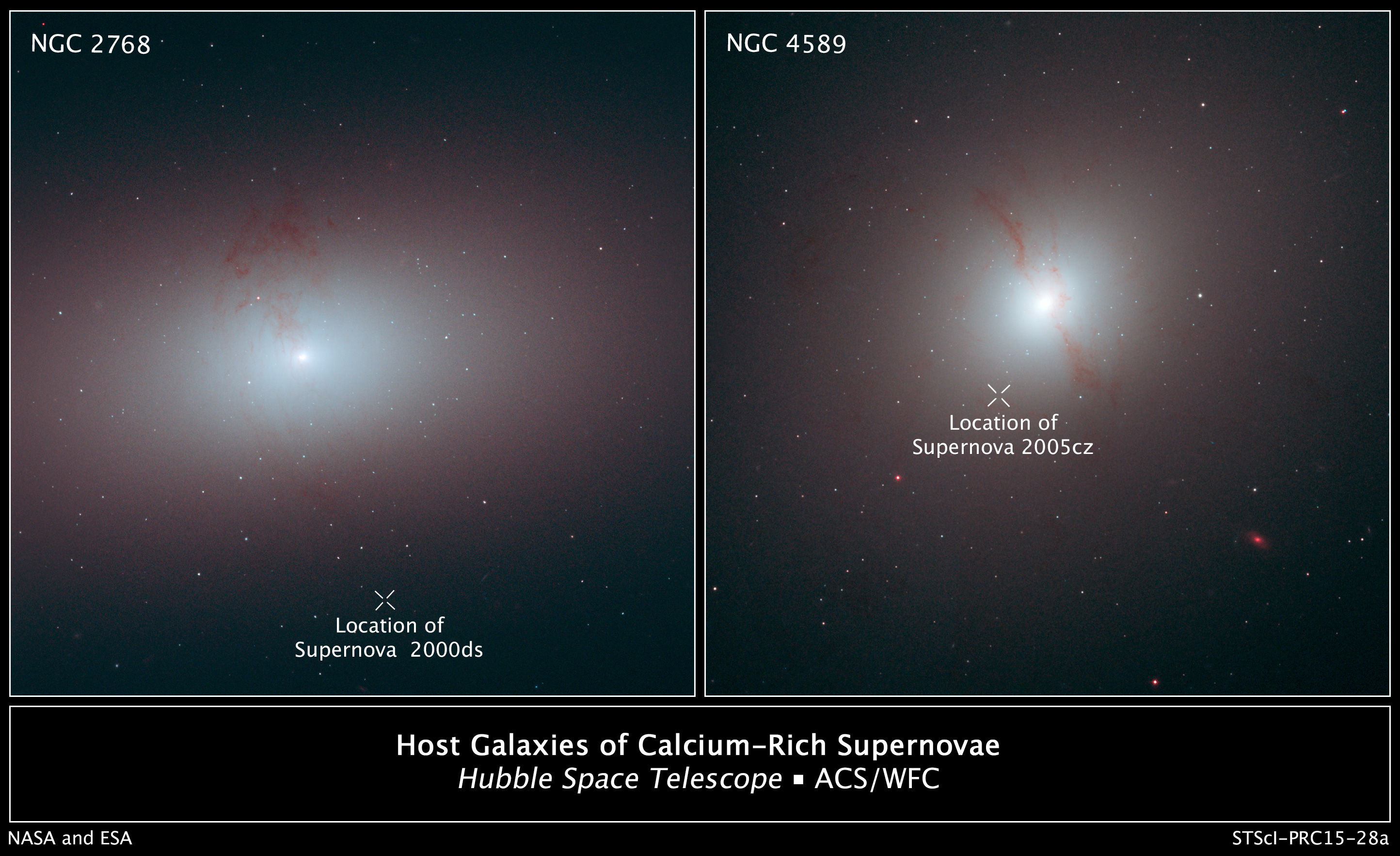 These Hubble Space Telescope images show elliptical galaxies with dark, wispy dust lanes, the signature of a recent galaxy merger. The dust is the only relic of a smaller galaxy that was consumed by the larger elliptical galaxy. The "X" in the images marks the location of supernova explosions that are associated with the galaxies. Each supernova may have been gravitationally kicked out of its host galaxy by a pair of central supermassive black holes. When two galaxies merge, so do their supermassive black holes. Astronomers suggest the supernovae were stars that were once part of double-star systems. These systems wandered too close to the binary black holes, which ejected them from their galaxies. Eventually, the stars in each system moved close enough together to trigger a supernova blast. These outcast supernovae are located at various distances from their home galaxies. SN 2000ds (left) is at least 12,000 light-years from its galaxy, NGC 2768; SN 2005cz (right) is at least 7,000 light-years from its galaxy, NGC 4589. NGC 2768 resides 75 million light-years from Earth, and NGC 4589 is 108 million light-years away. The supernovae are part of a census of 13 supernovae to determine why they detonated outside the cozy confines of galaxies. The study is based on archived images made by several telescopes, including Hubble. Both galaxies were observed by Hubble's Advanced Camera for Surveys. The image of NGC 4589 was taken on Nov. 11, 2006, and the image of NGC 2768 on May 31, 2002.